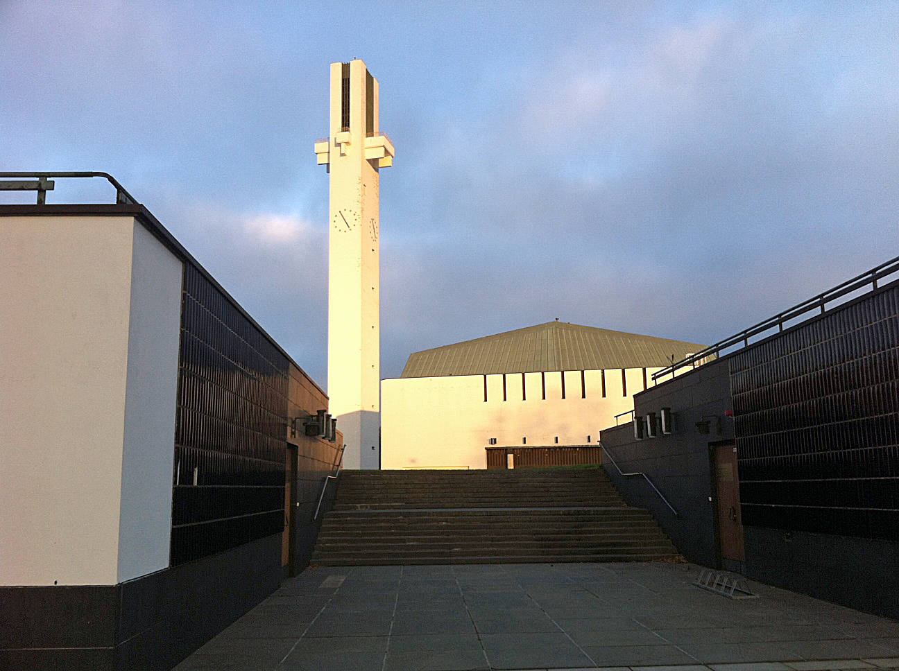 Lakeuden risti, Seinäjoki's main church, designed by Alvar Aalto.